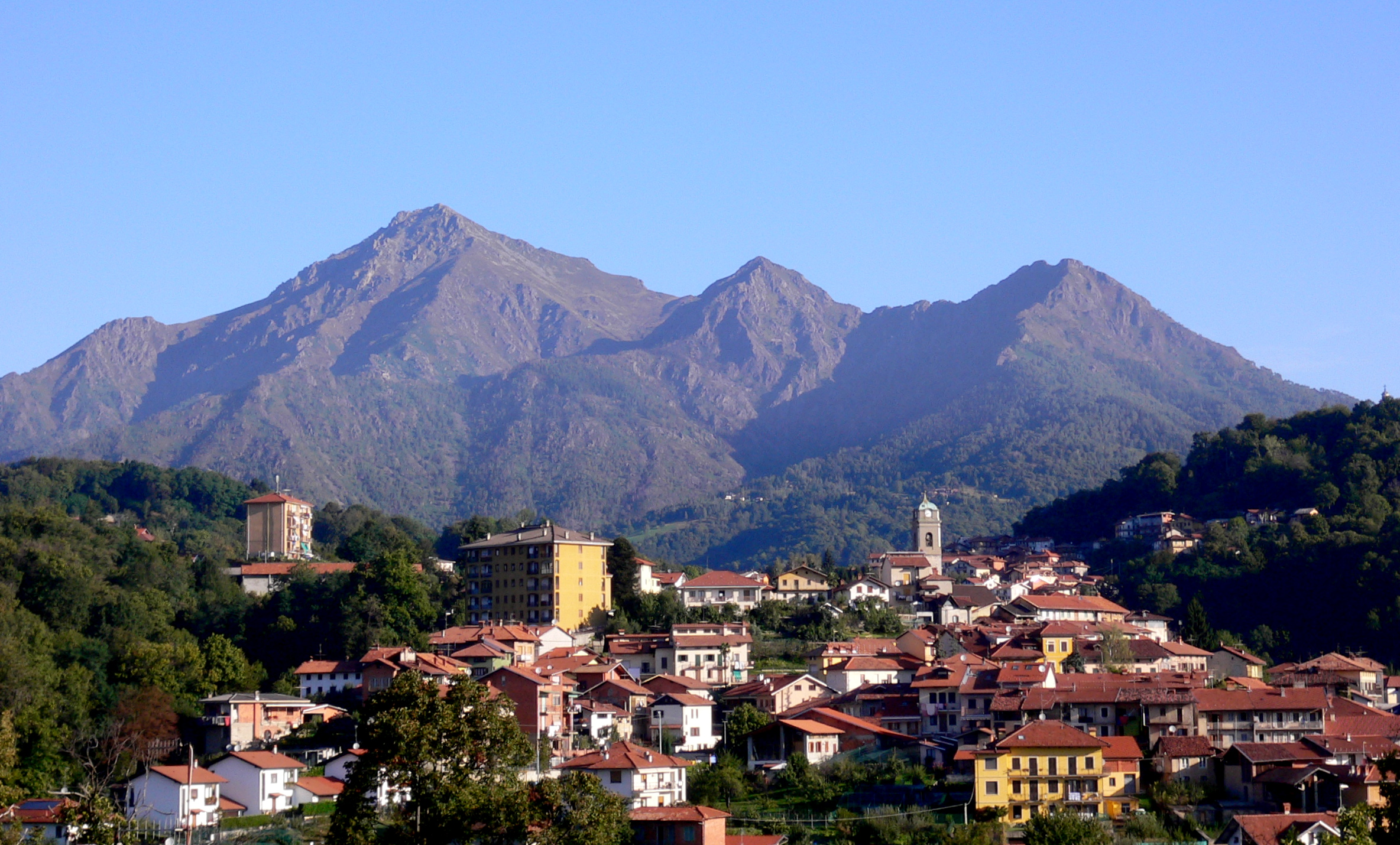 Late summer panorama of Pratrivero, in Trivero (Biella), Italy